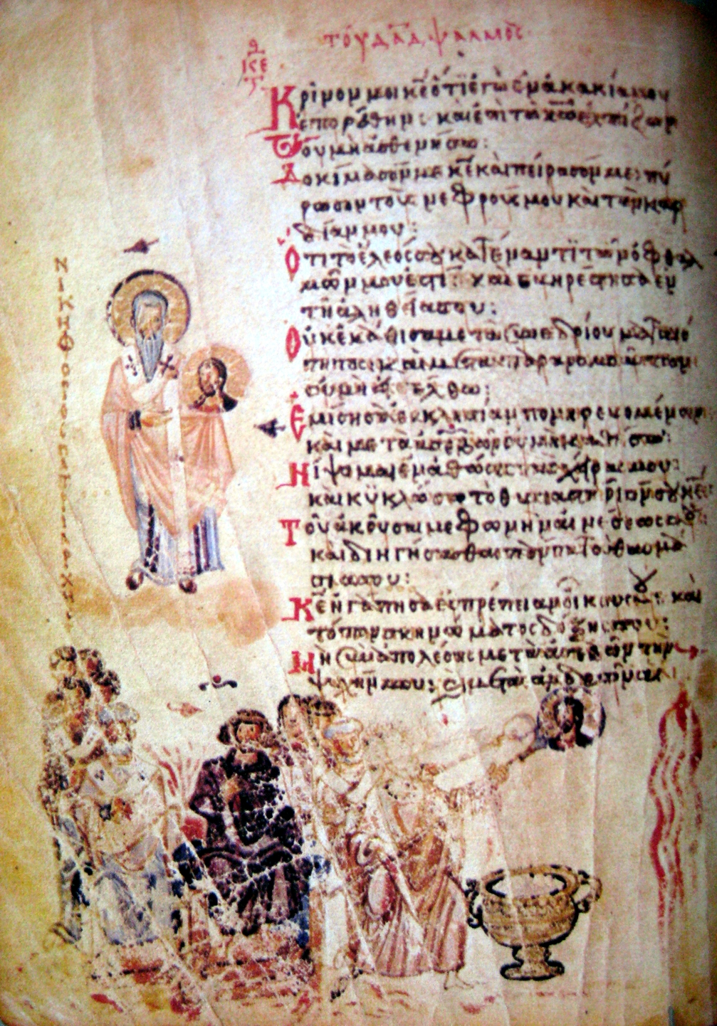 Miniature from Chludov Psalter. Аdmittedly - iconoclasm council of 815, with emperor Lev and patriarch Theodot I. Icon is destroed by John VII Grammatikos and Antonius of Sileya